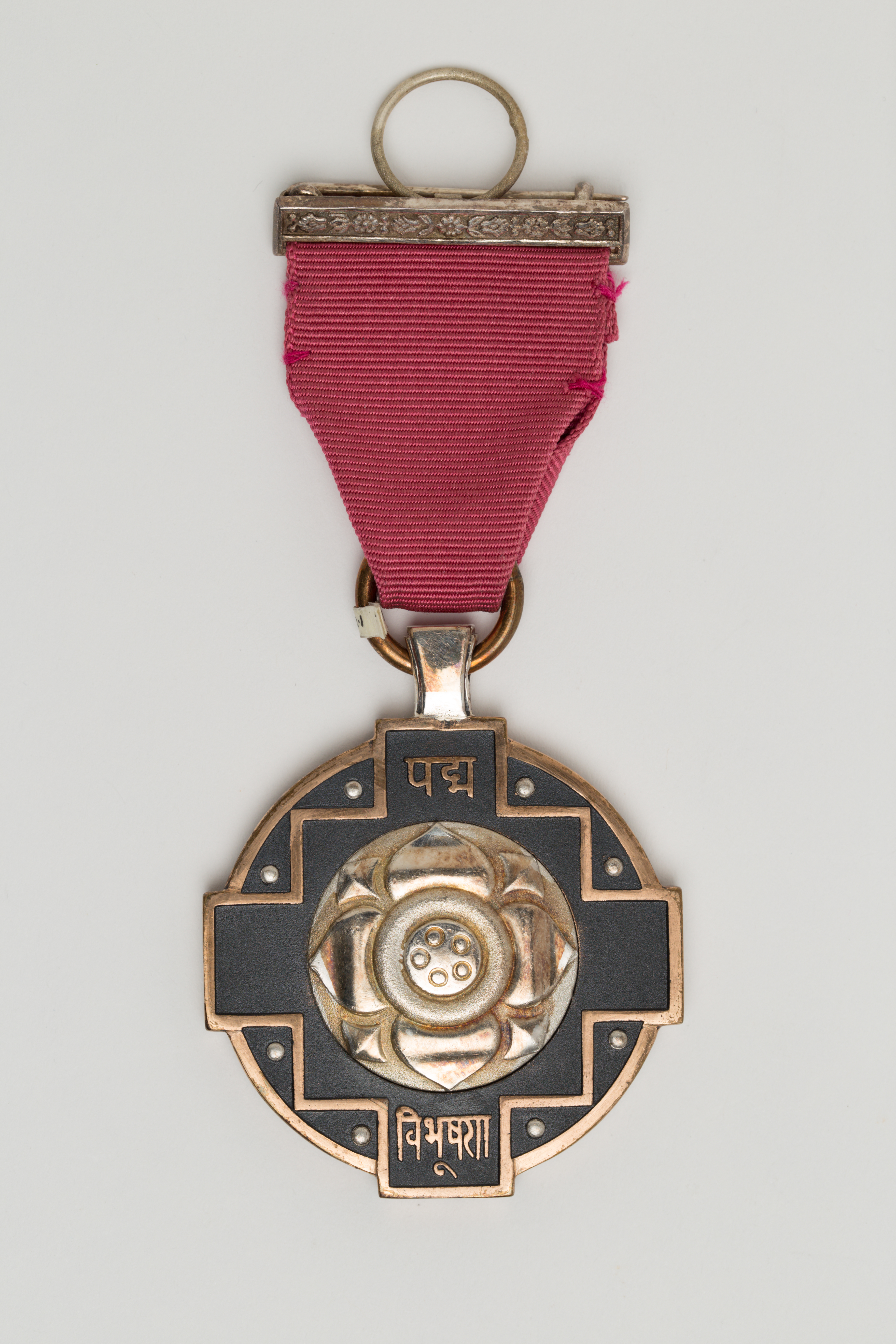 Republic of India- The Padma Vibhushan - Decoration of the Lotus Breast badge, heavy metal cross in gilt and silver with a frosted dark green finish. Associated material is a paper scroll (certificate) in a decorated cardboard tube, stored in a brown cardboard box.